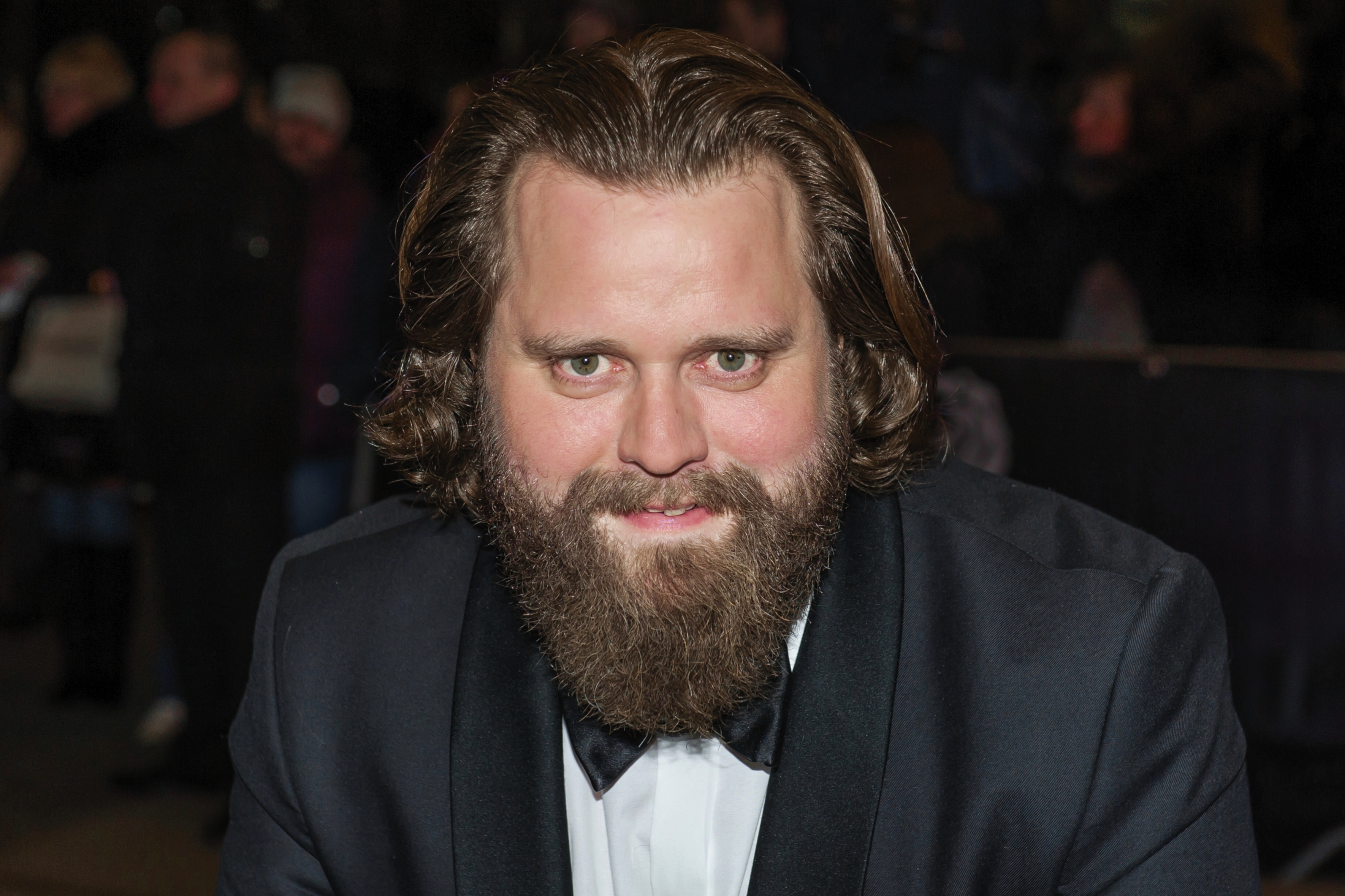 Actor Antoine Monot Jr. Medienboard reception at the Ritz Carlton Hotel Berlin